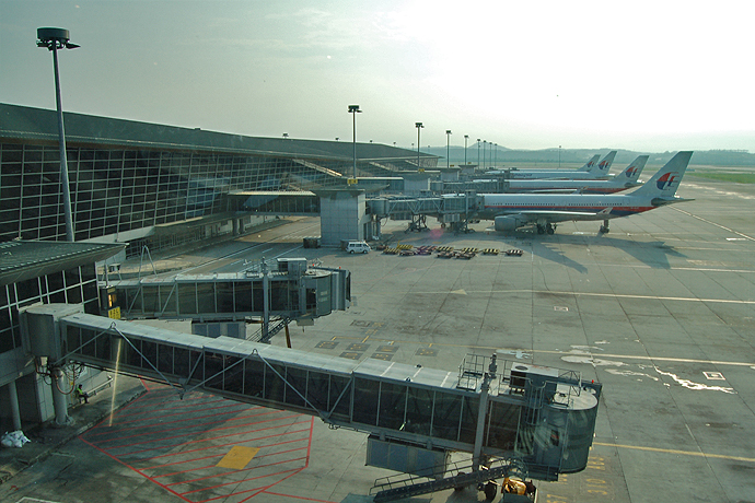 and this is where people can exit or enter the aircraft